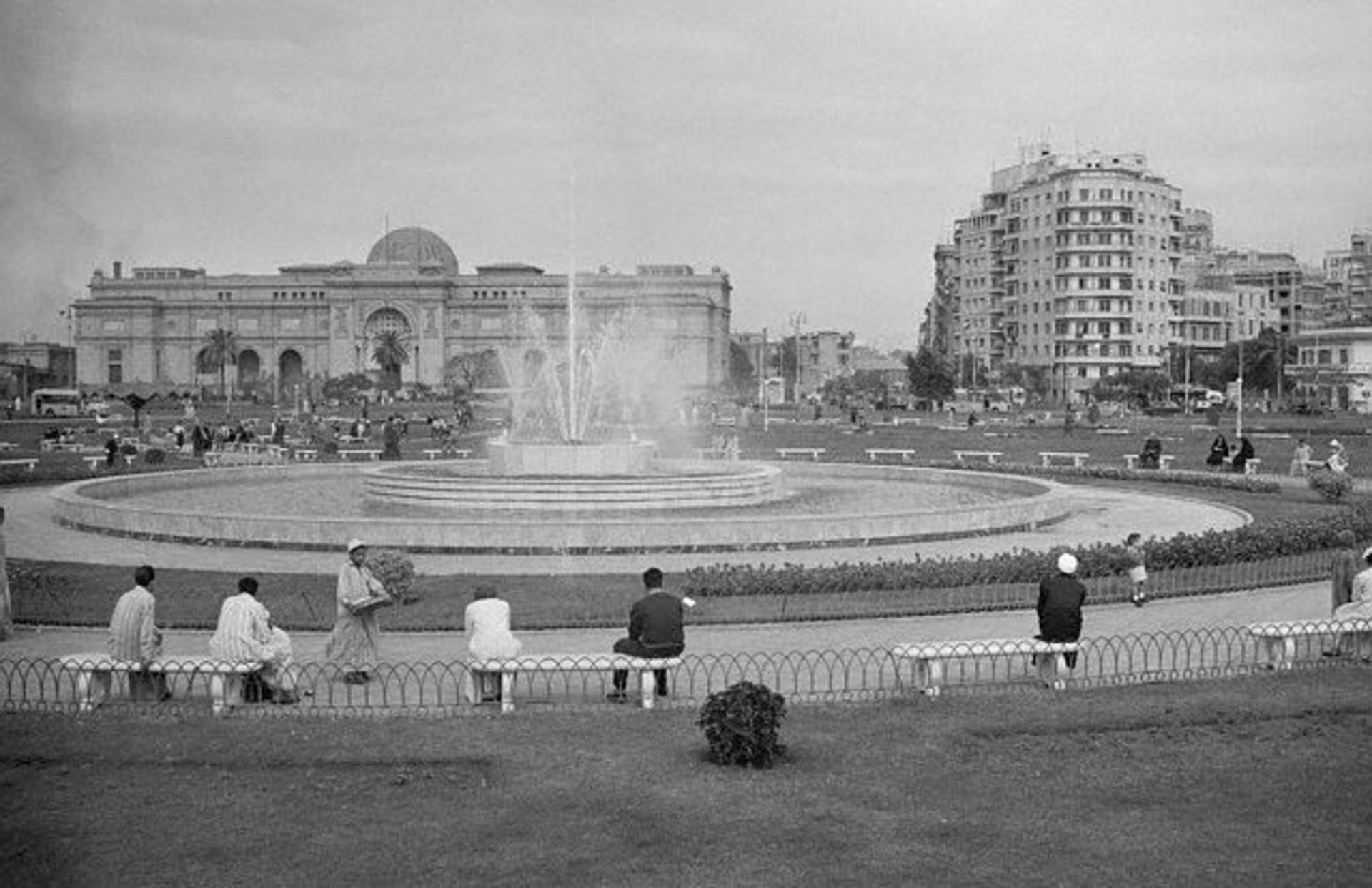 Tahrir Square, with the Egyptian Museum on left, circa 1940s Cairo (over 70 years ago).